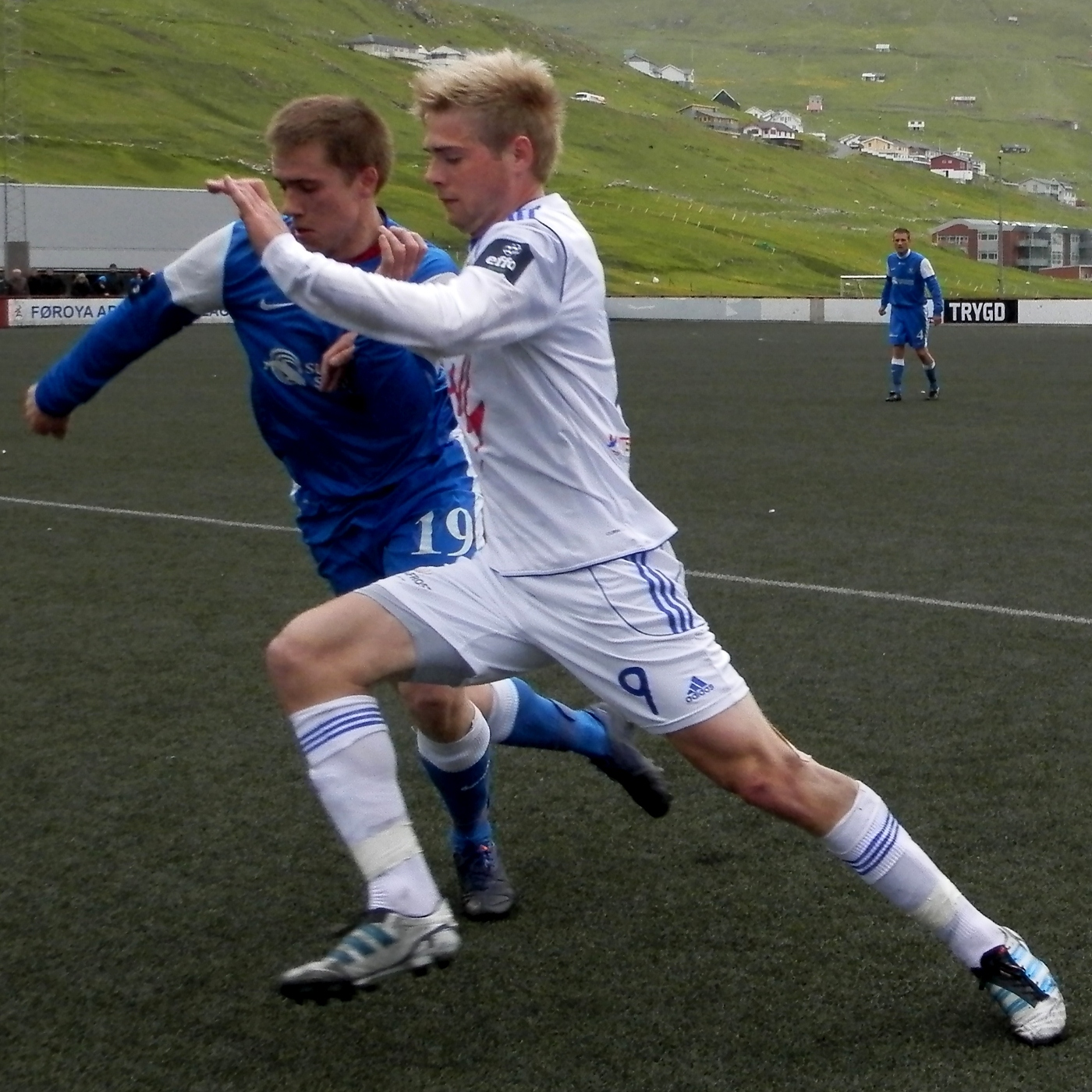 Páll Klettskarð is a Faroese football (soccer) player who currently (2012) plays for KÍ Klaksvík. He is the player in the foreground (number 9 on this photo). He has played for the U17, U19 and U21 national teams of the Faroe Islands. The other player (number 19 in blue) is Kári í Lágabø, who currently plays for FC Suðuroy.